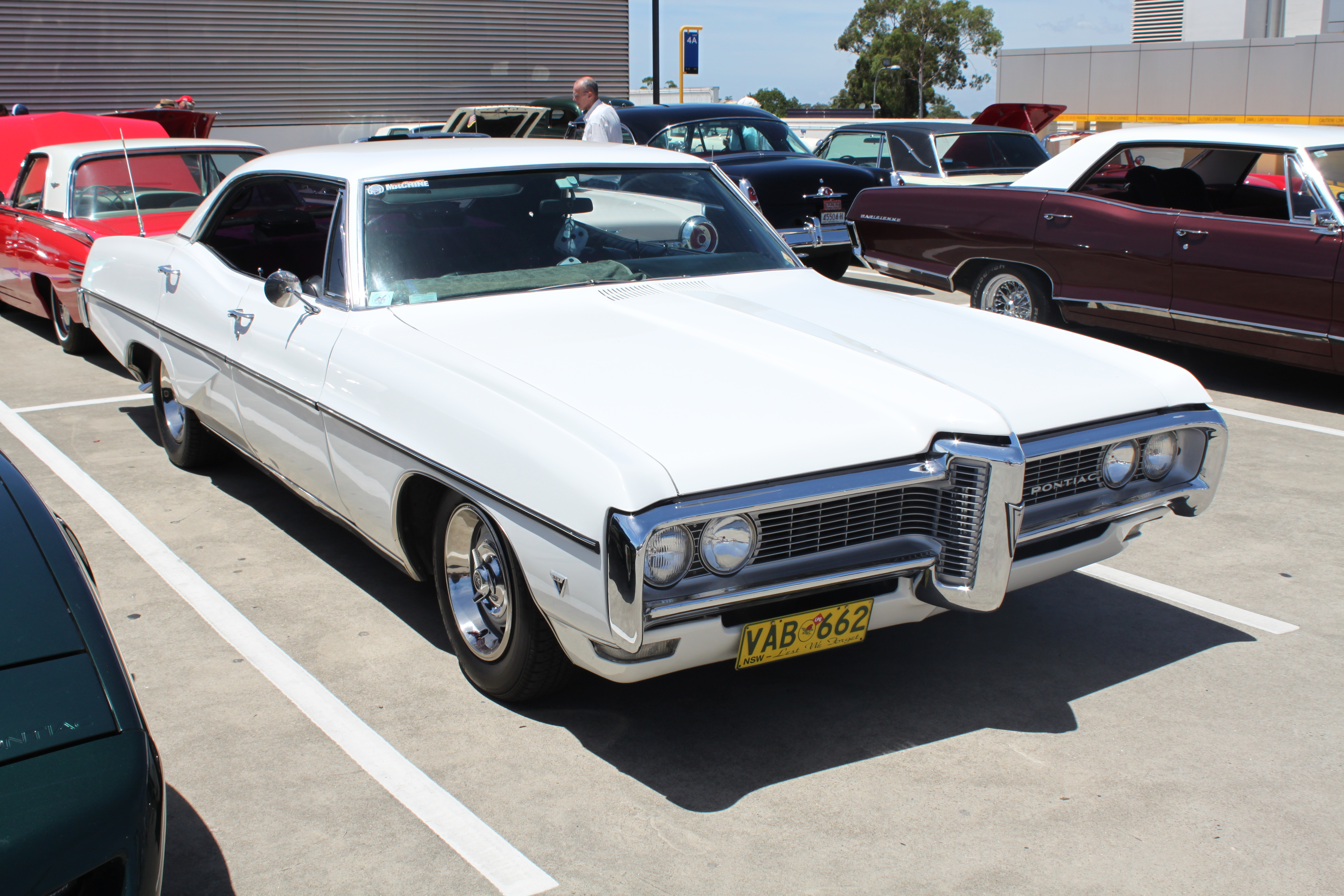 1968 Pontiac Parisienne Sport Sedan. American Car Show, Castle Hill, NSW 2015